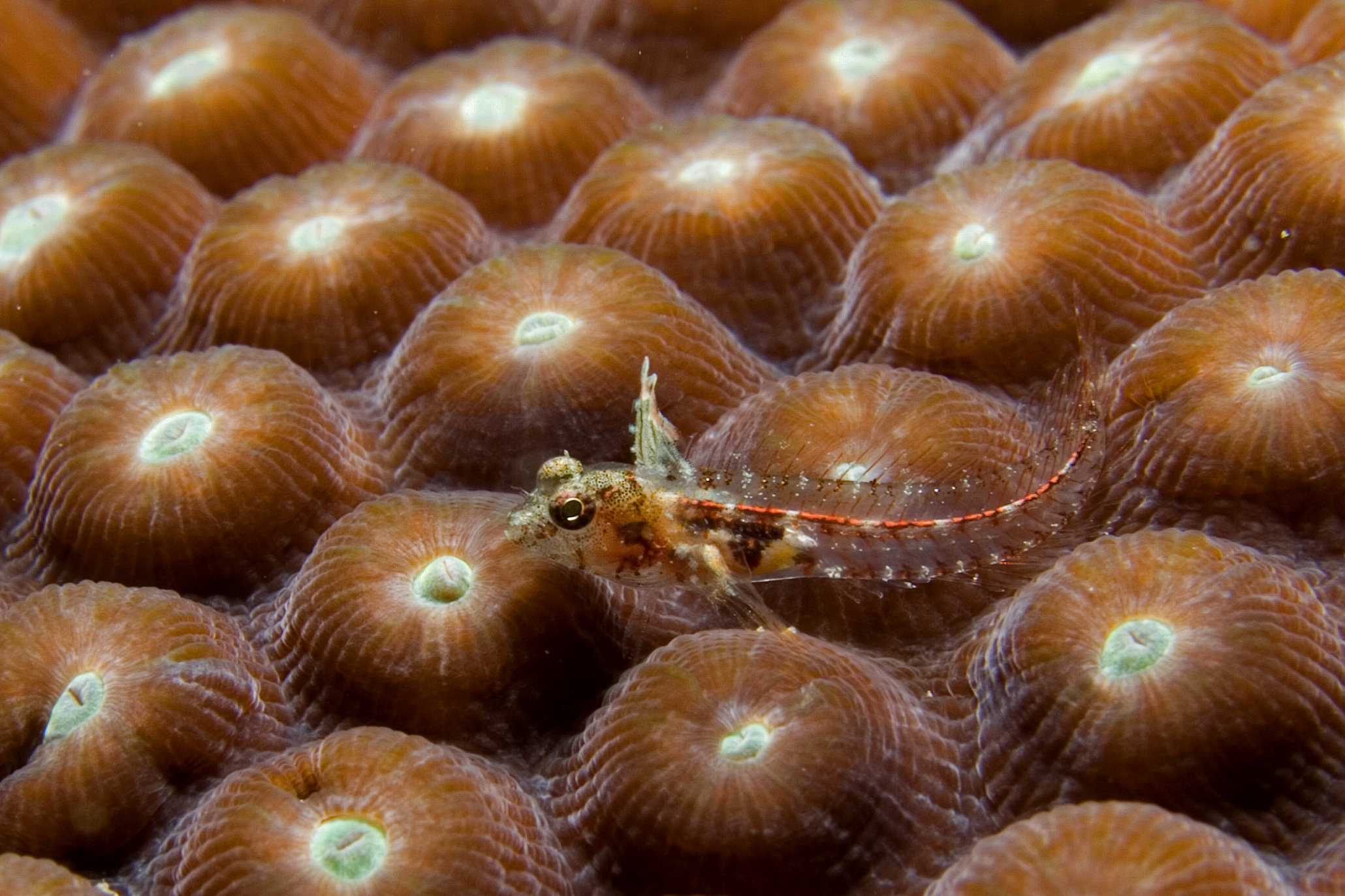 Emblemariopsis carib (Caribbean Flagfin Blenny). See the article in the Journal of the Ocean Science Foundation on this newly described species .